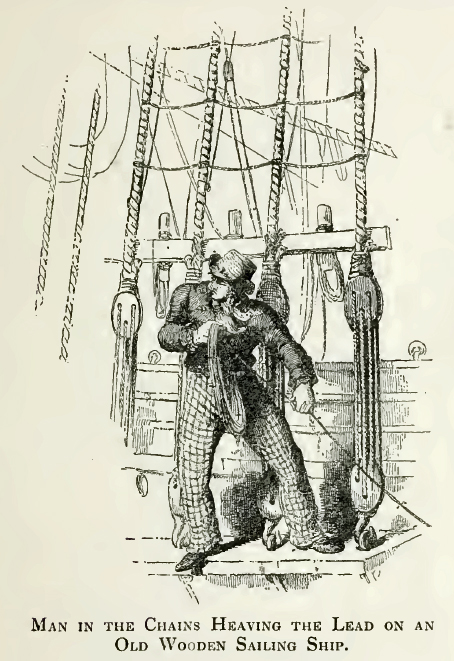 Nautical illustration of a man in the chains "heaving the lead: on an old sailing ship.